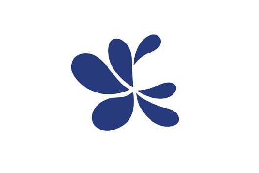 Flag of Takashima Shiga